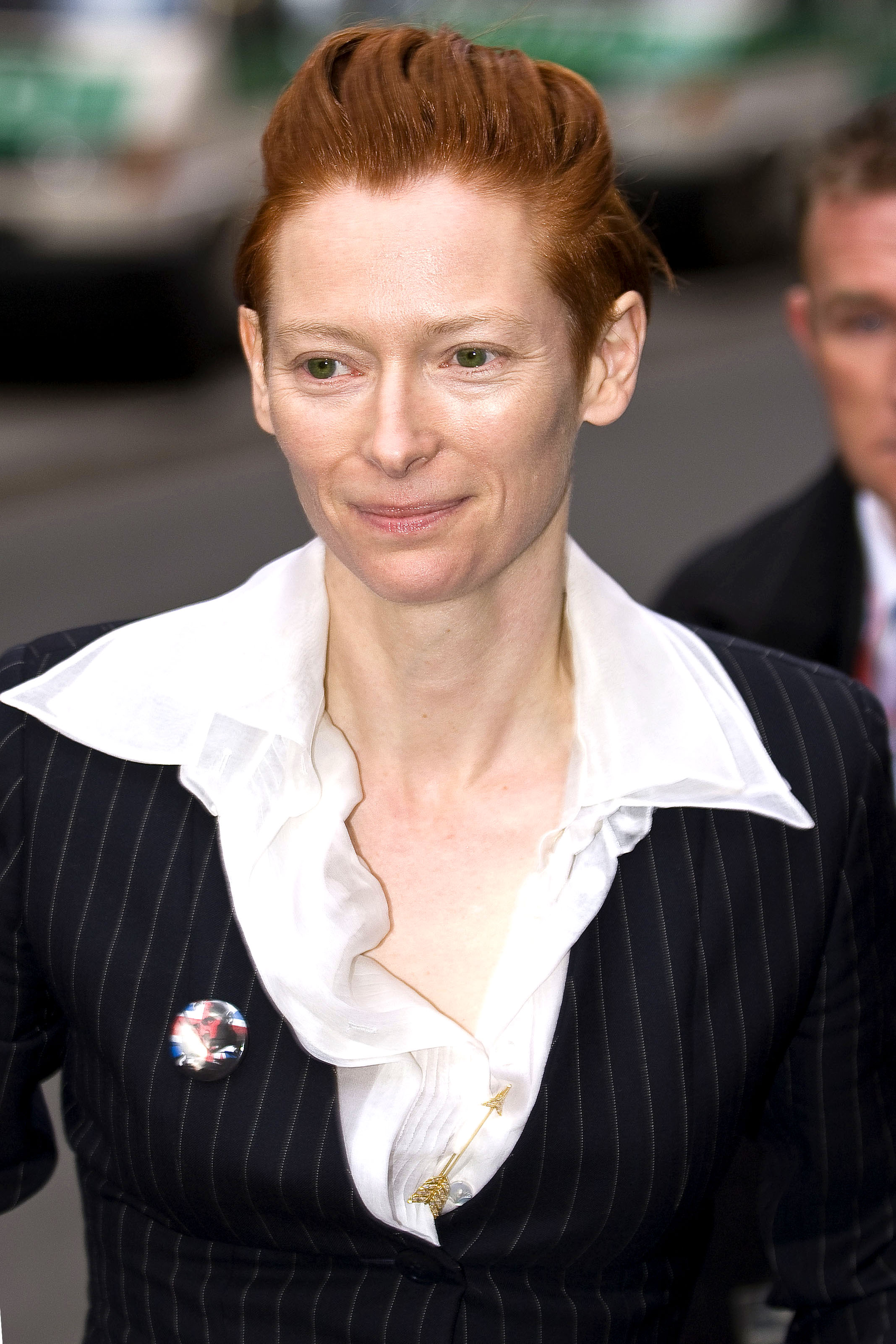 Tilda Swinton, arrival for press conference of "Derek" at the Hyatt Hotel, Potsdamer Platz, Berlin